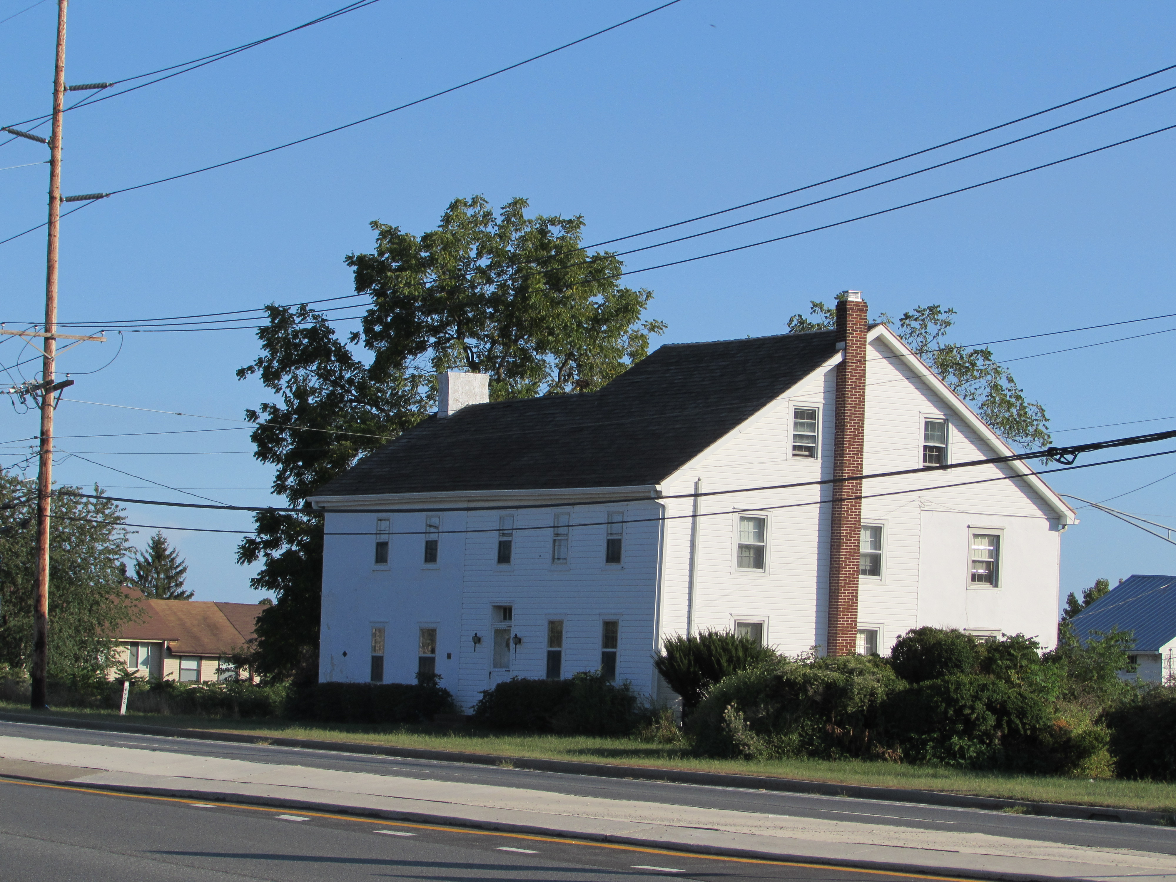 Mermaid Tavern on Limestone Road (Delaware Route 7). The portion in the rear, stucco on stone, is the oldest part of the structure, built in 1725.